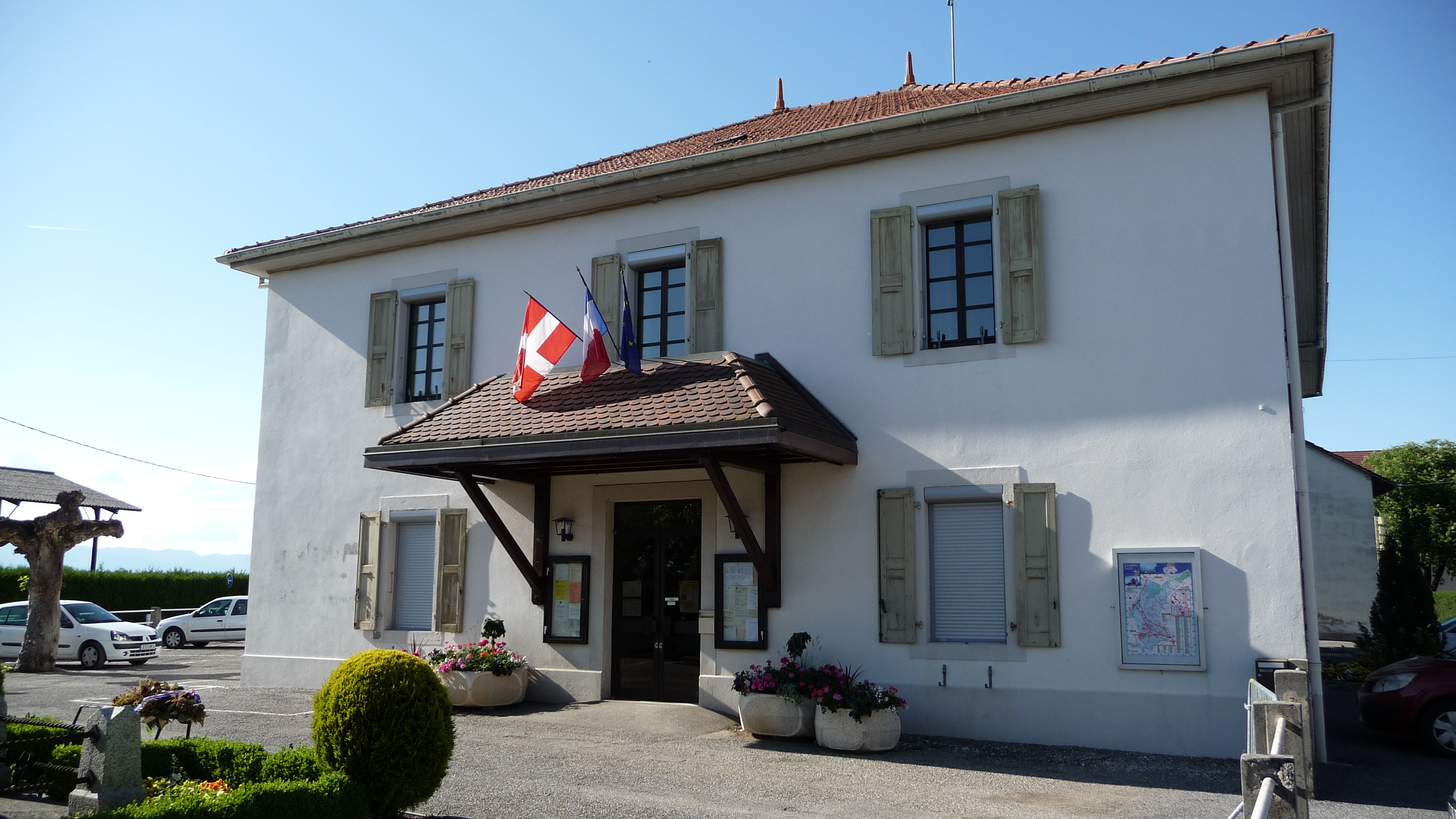 Town hall of Cranves-Sales, France.